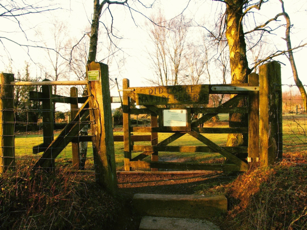 One of the gates into Ashdown Forest at sunset, taken by Robert Broadie on 7 February 2005. 1. Slight colour adjustments made to the original image here: [1]